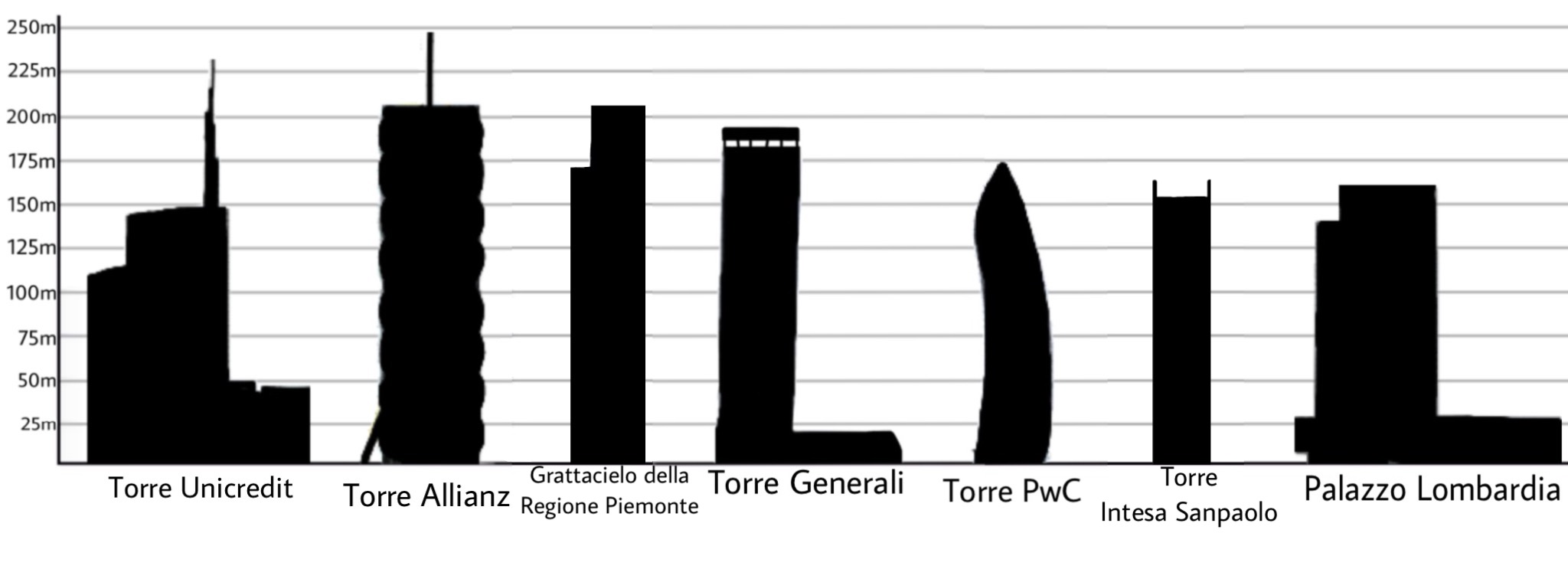 The seven tallest skyscrapers in Italy.